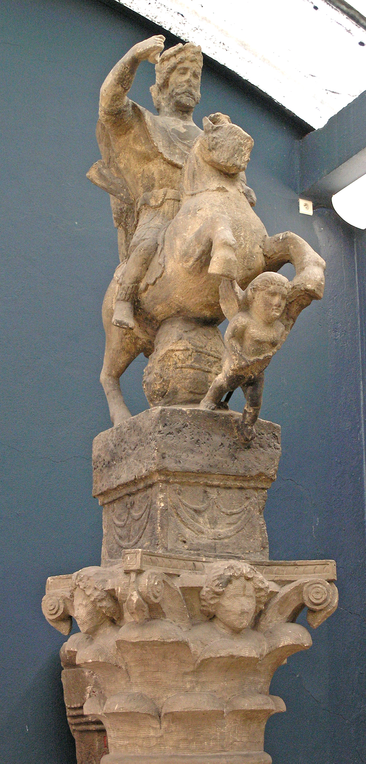 Gallic equestrian group representing Jupiter mounted, found in Grand (Vosges), France. Musée lorrain, Nancy. Photograph taken by Marsyas 10:59, 26 February 2006 (UTC)